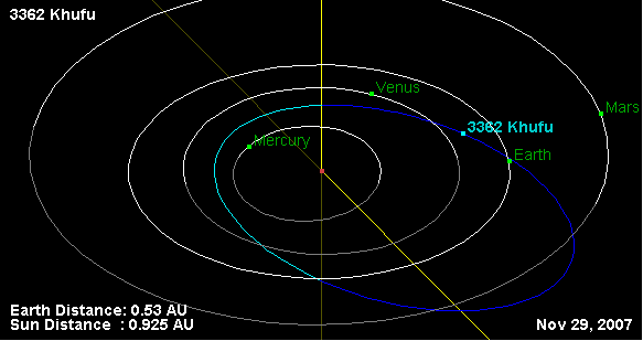 Image of w:3362 Khufu's orbit on November 29, 2007